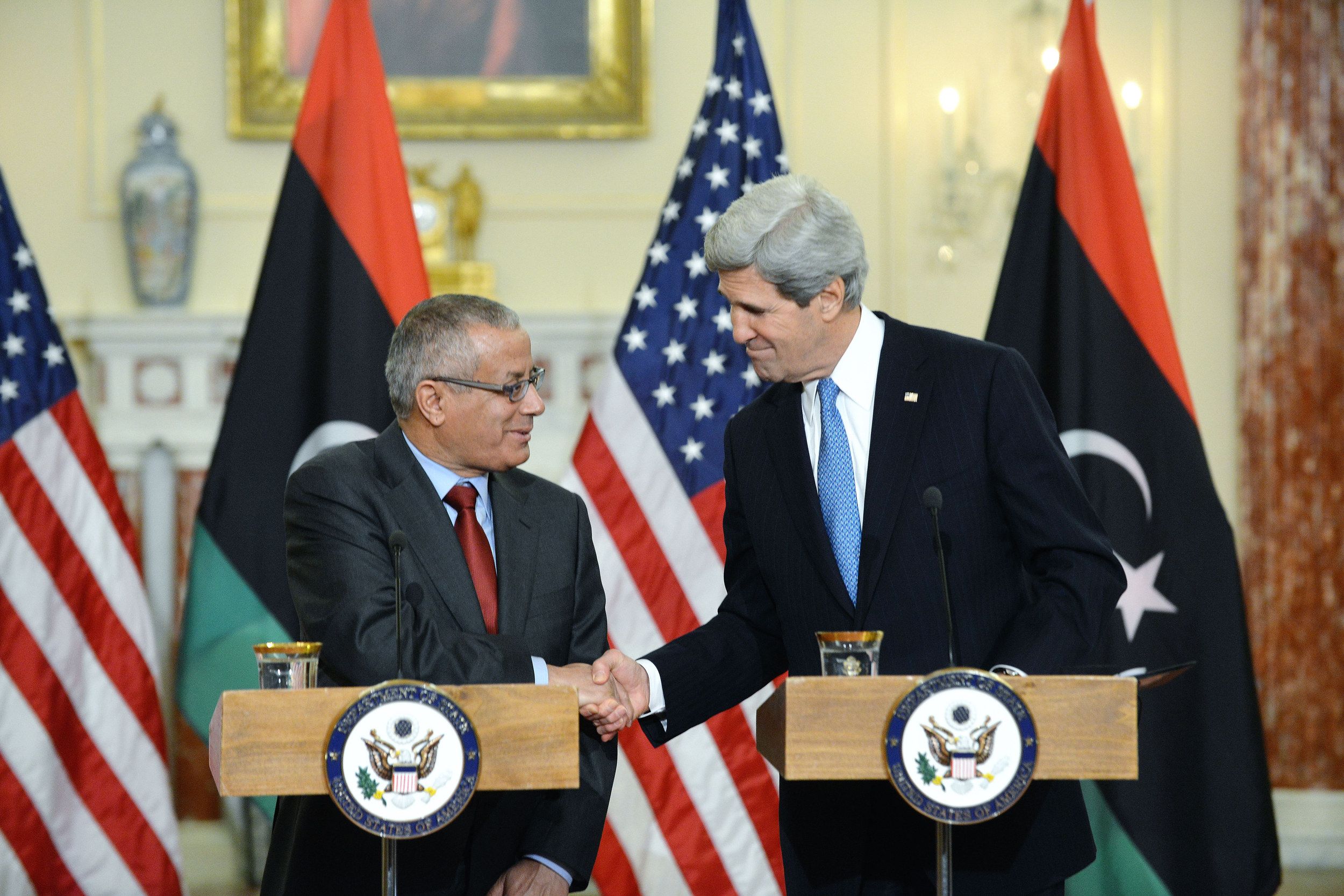 U.S. Secretary of State John Kerry shakes hands with Libyan Prime Minister Ali Zeidan after addressing reporters at the U.S. Department of State in Washington, D.C., on March 13, 2013. [State Department photo/ Public Domain]